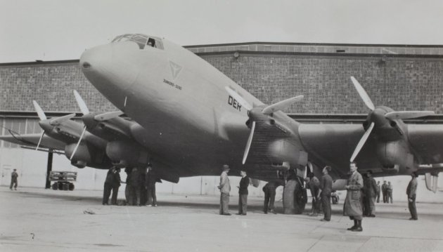 PictionID:38237395 - Catalog:Array - Title:Array - Filename:15_002355.TIF - -------Image from the Charles Daniels Photo Collection.----Album: German Aircraft.-----------PLEASE TAG these images with any information you know about them so that we can permanently store this data with the original image file in our Digital Asset Management System.-----------------SOURCE INSTITUTION: San Diego Air and Space Museum Archive